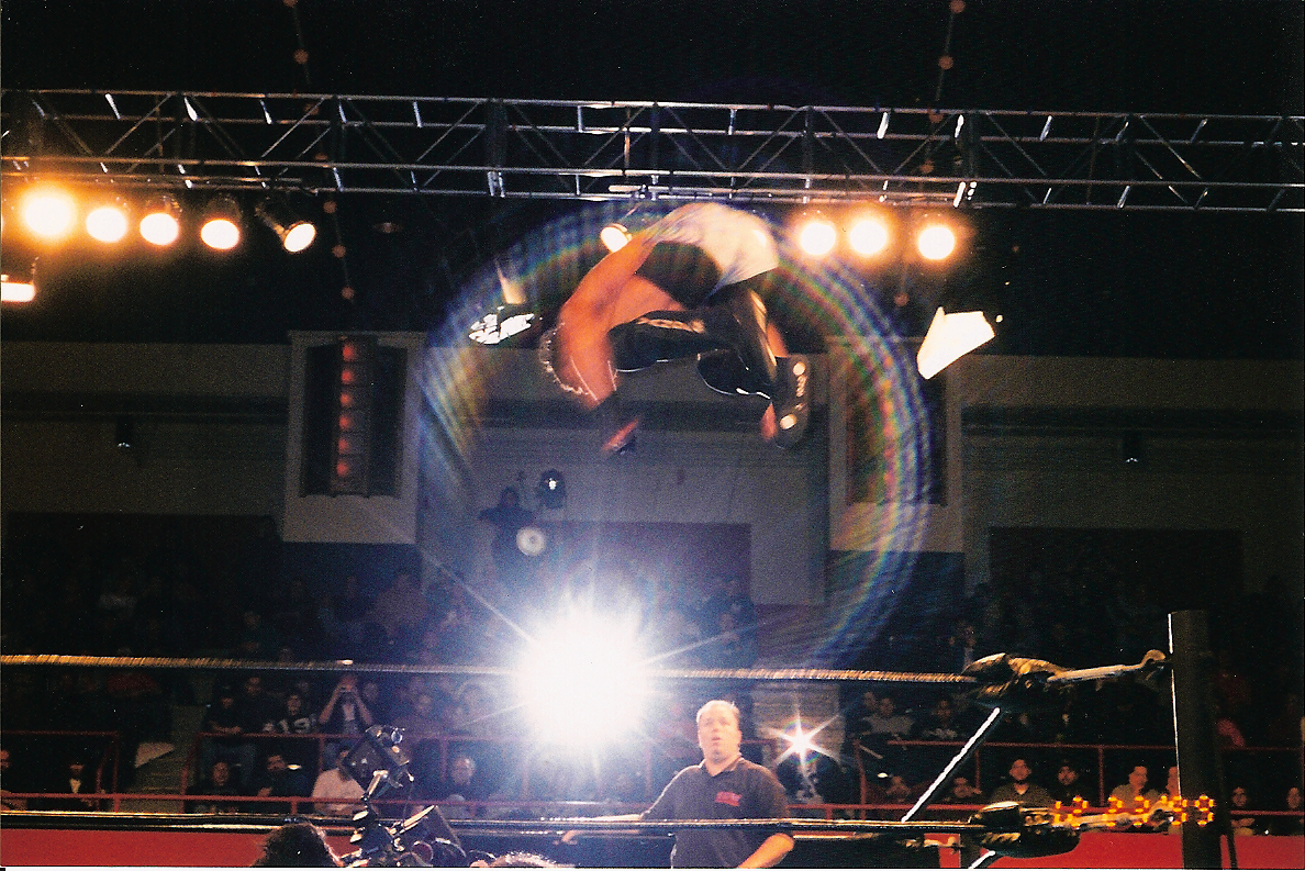 ECW @ Westchester County Center in White Plains, NY TNN TV Taping - 12.23.99